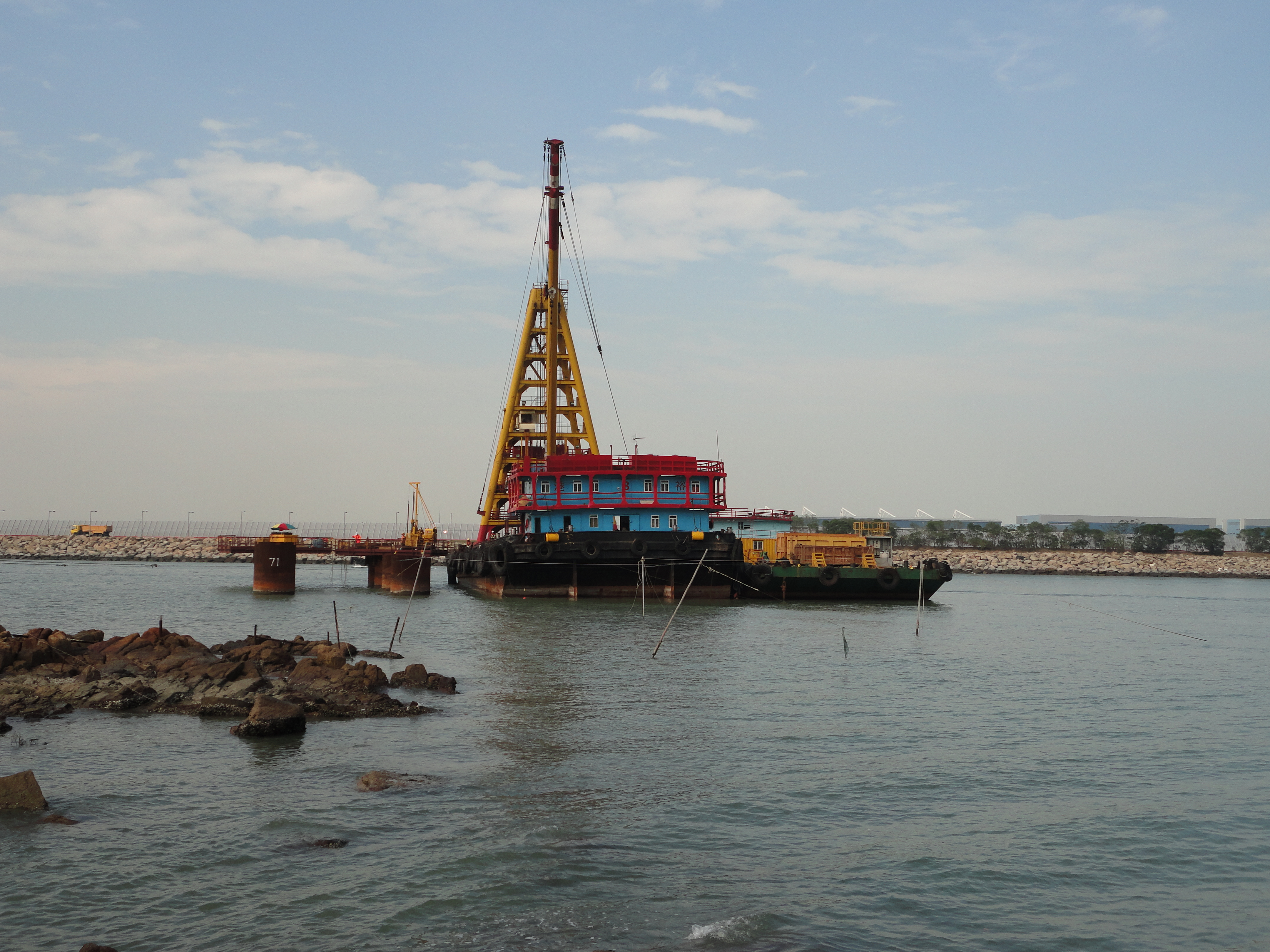 Bored piles construction work for the Hong Kong–Zhuhai–Macau Bridge near Sha Lo Wan, Lantau Island.